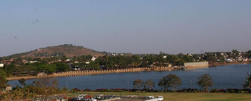 Unkal Lake near Chandramouleshwara temple